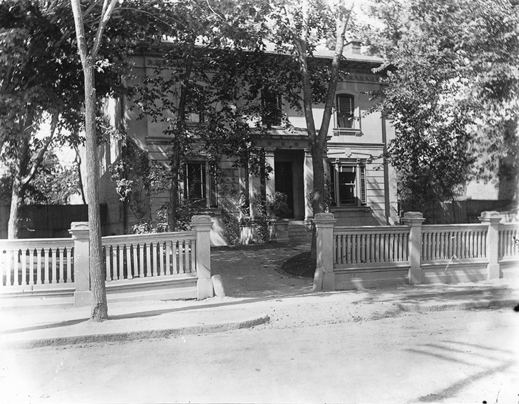 William Notman's house, 557 Sherbrooke Street West (today 51 Sherbrooke Street West), Montreal, Quebec, Canada, 1893